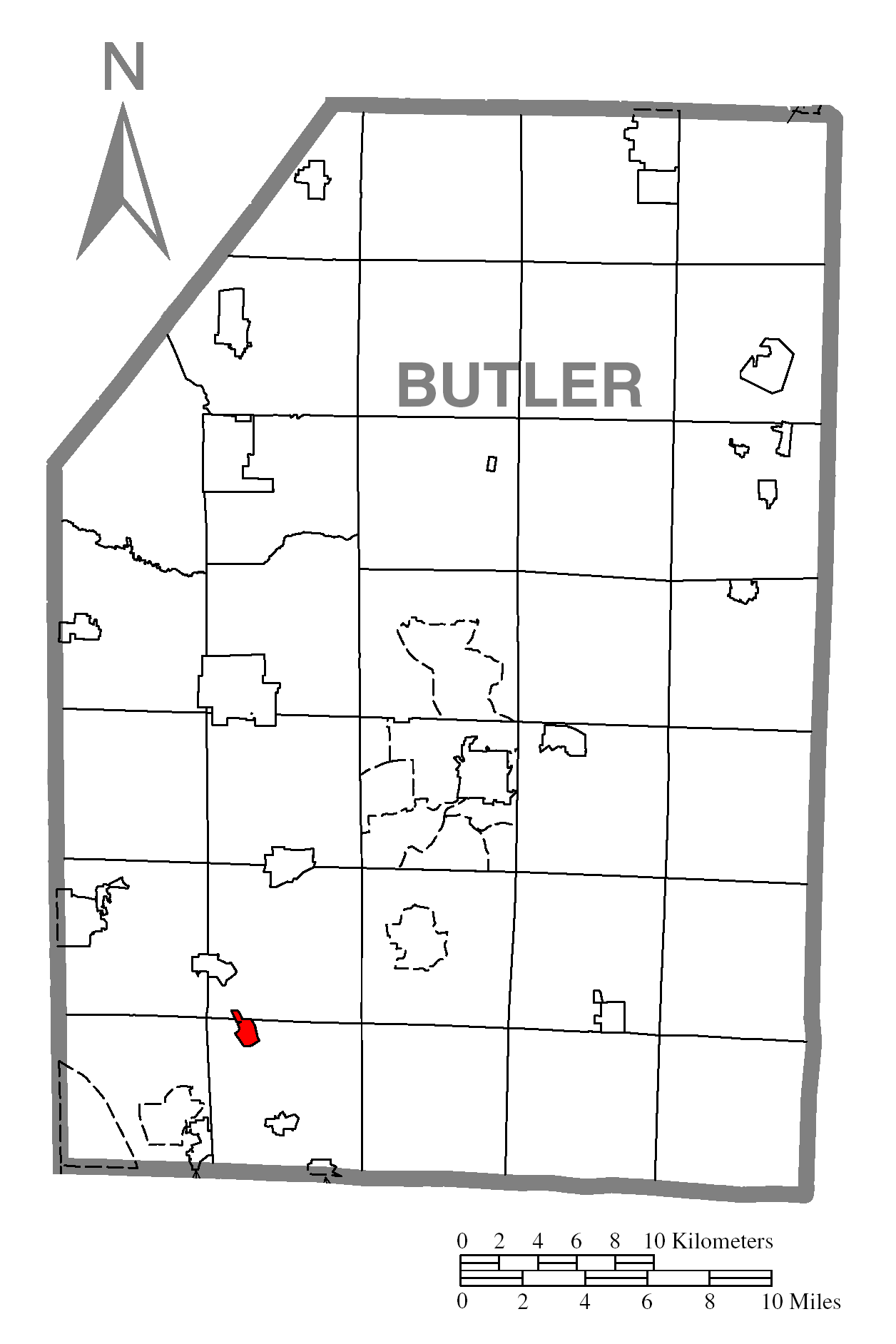 A map of Butler County showing Callery, Pennsylvania (alternate) highlighted on the map.